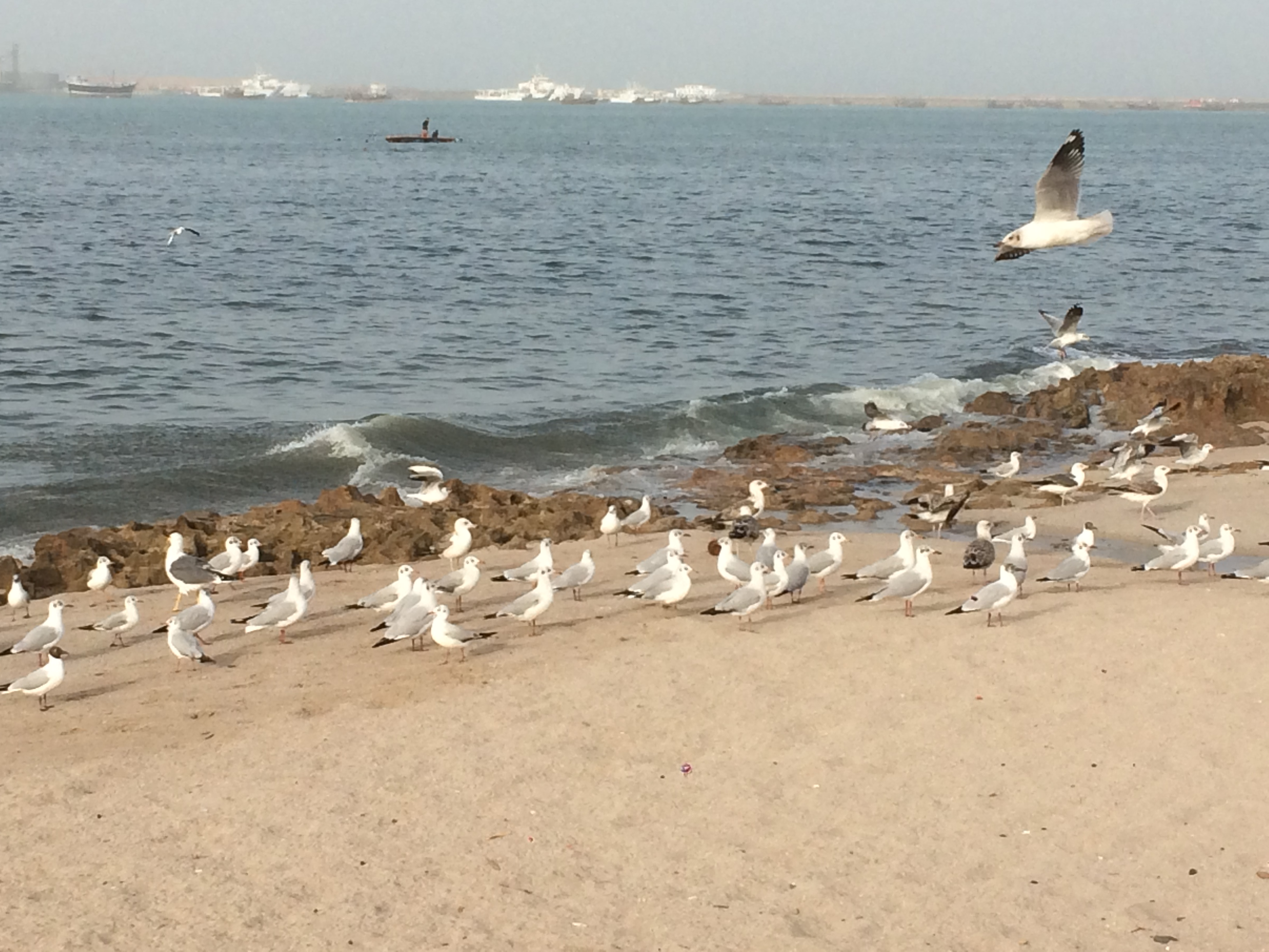 it is Port Porbandar (Gujarat) chowapti early morning picture